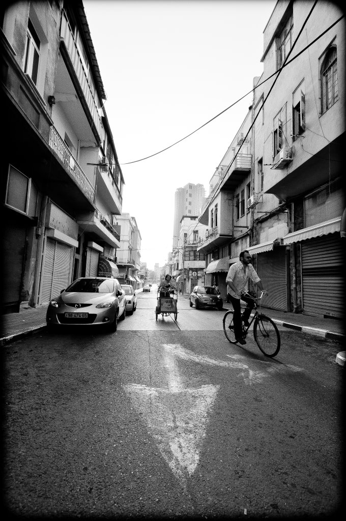 friday afternoon | צהרי שישי Tel Aviv